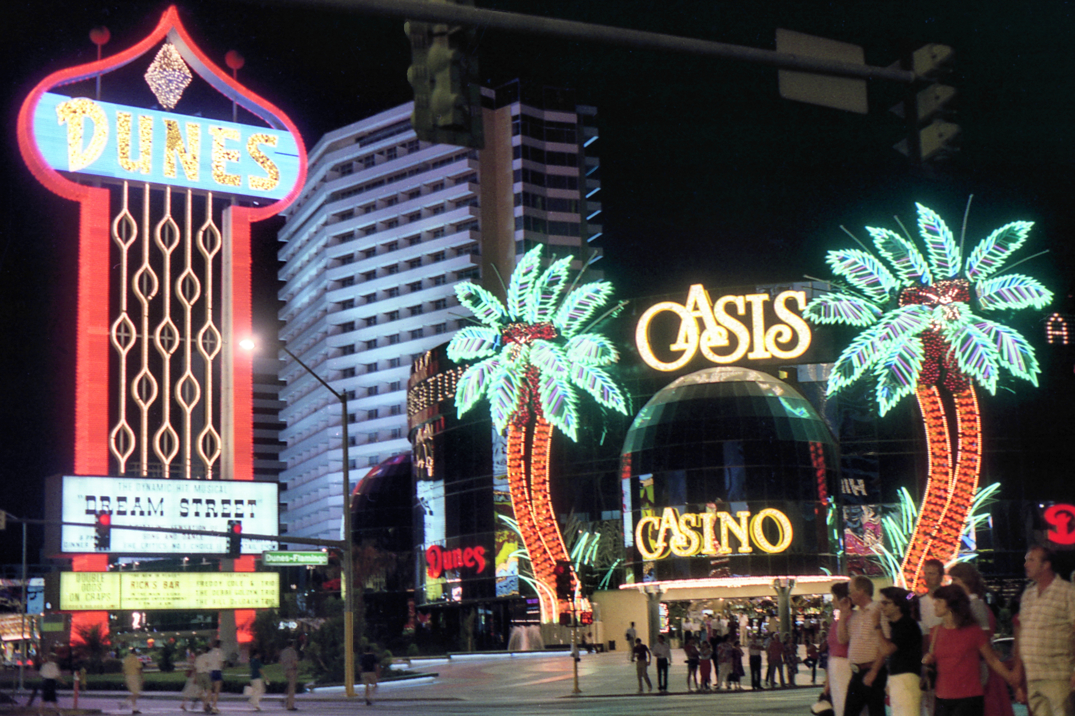 The Dunes Hotel and Casino in Las Vegas, Nevada, United States. {Demolished)